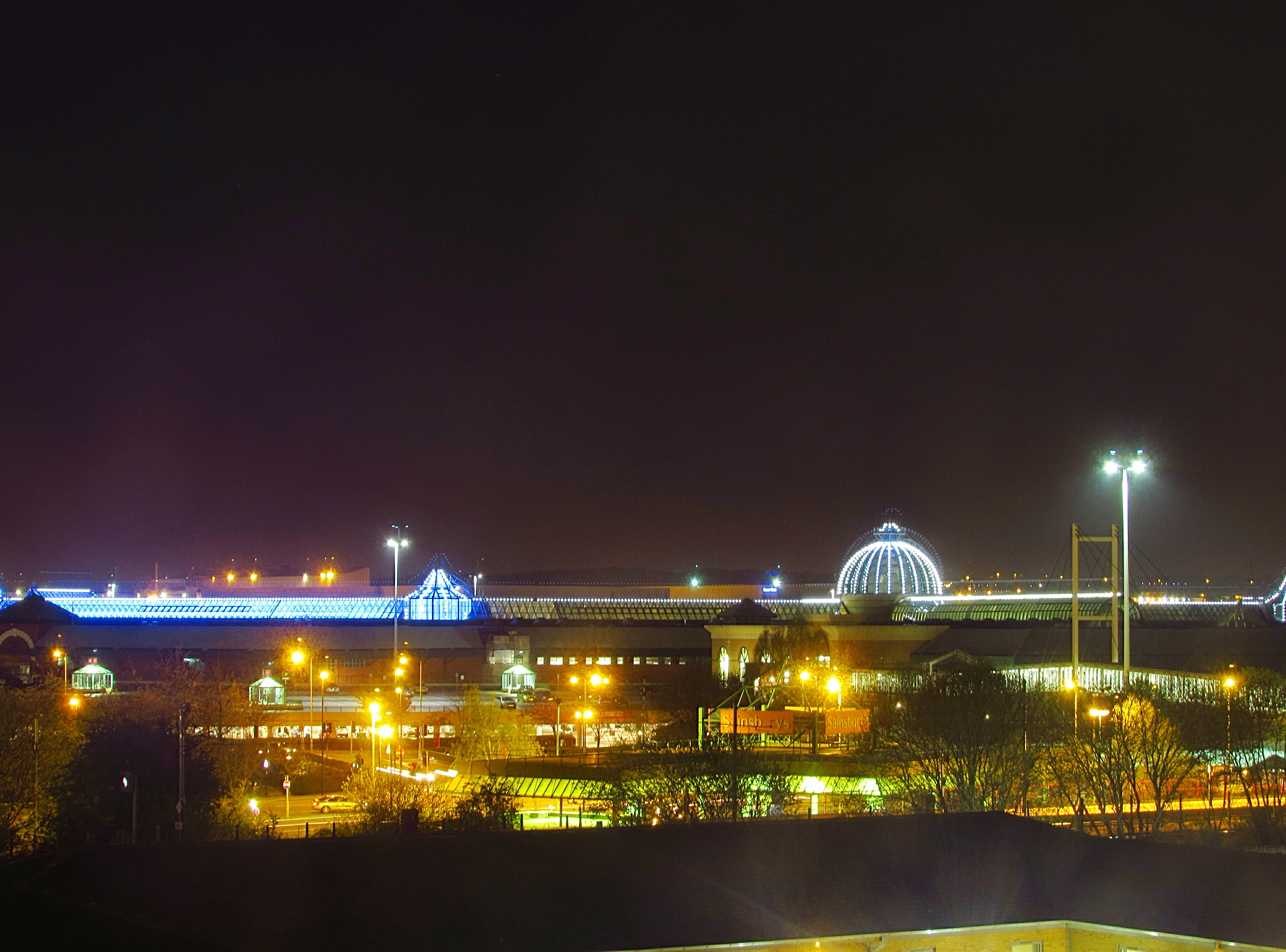 Meadowhall Shopping Centre at Night in 2015.